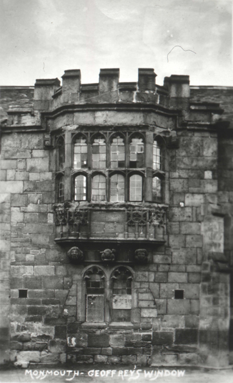 View of the window of Geoffrey of Monmouth's Study, which is on Priory street, taken from north by W.A. Call. Monmouth Museum identity number: M1928.111